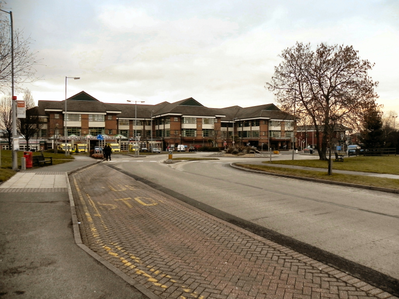 Redgate Way, Royal Bolton Hospital